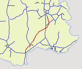 planned A79